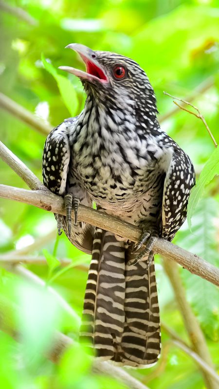 Asian Koel (Eudynamys scolopaceus) Female, in Tirunelveli, Tamil Nadu, India.